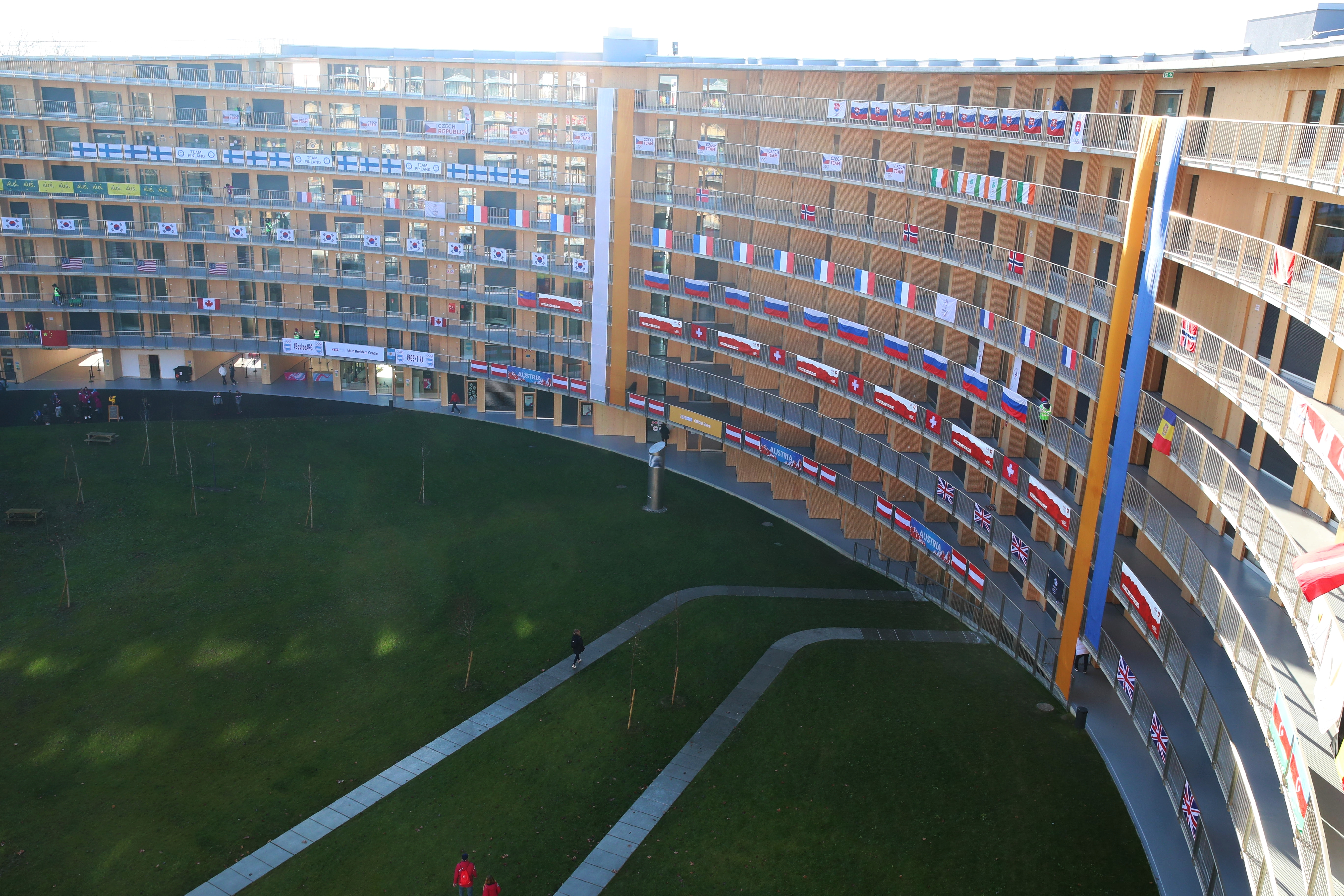 Media tour at the Youth Olympic Village in Lausanne